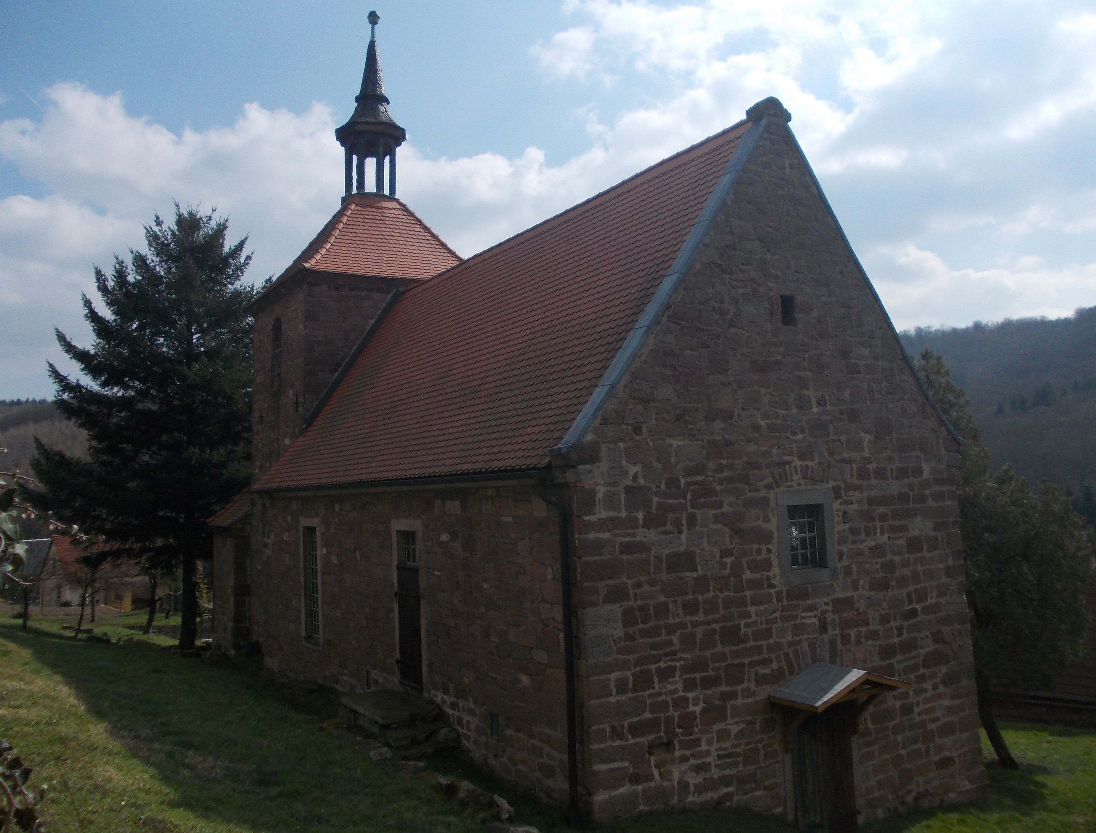 St. James Church in Thalwinkel (Bad Bibra, district: Burgenlandkreis, Saxony-Anhalt)